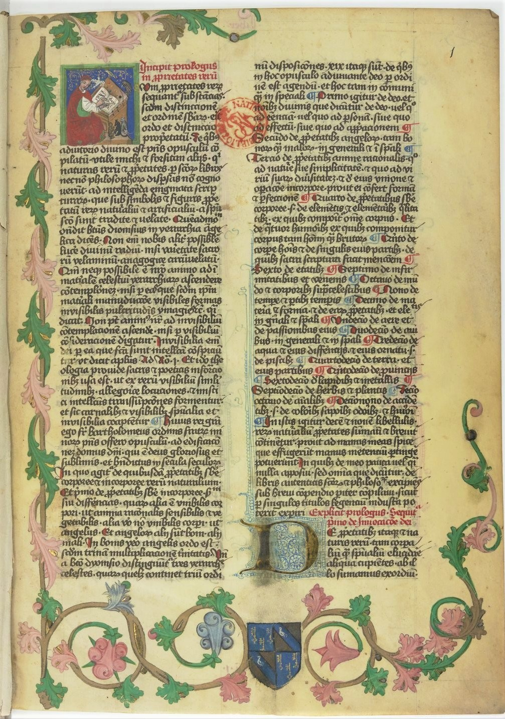 First page of Bartholomaueus Anglicus' De proprietatibus rerum.